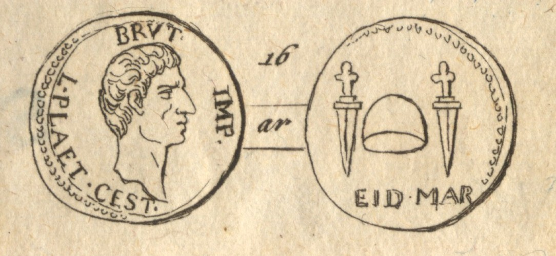 43-42 BC - Brutus - Denarius Obverse// BRVT IMP L PLAET CEST, head of Brutus right - Reverse/ EID MAR, liberty cap and two daggers. Cr508/3, Syd 1301. from an Italian translation of: Eckhel: Kurzgefasste Anfangsgründe zur alten Numismatik, Vienna, 1787, - Self scanned